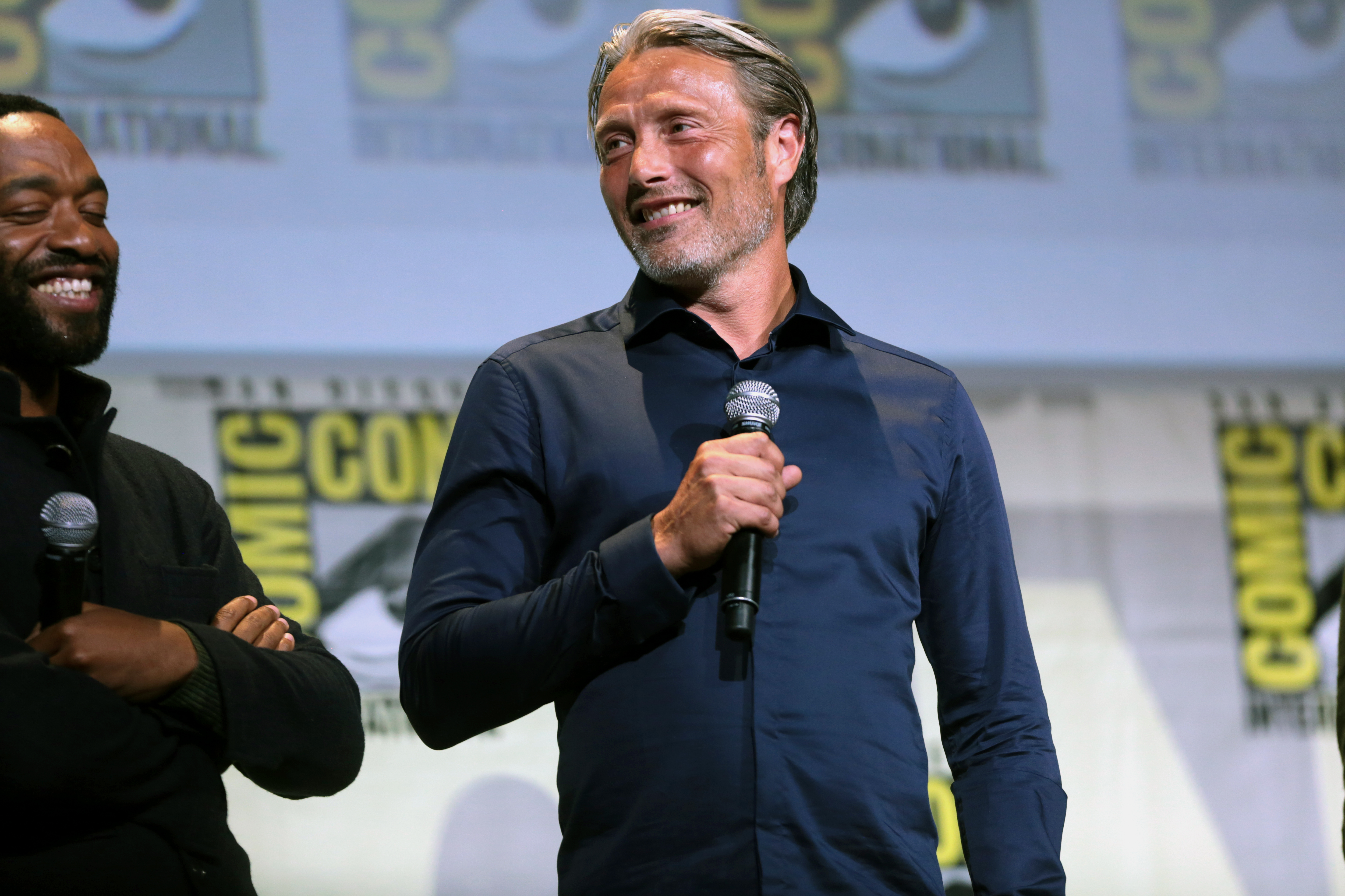 Mads Mikkelsen speaking at the 2016 San Diego Comic Con International, for "Doctor Strange", at the San Diego Convention Center in San Diego, California.